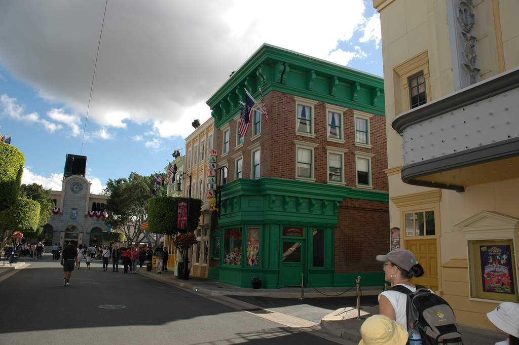 WB Movie World